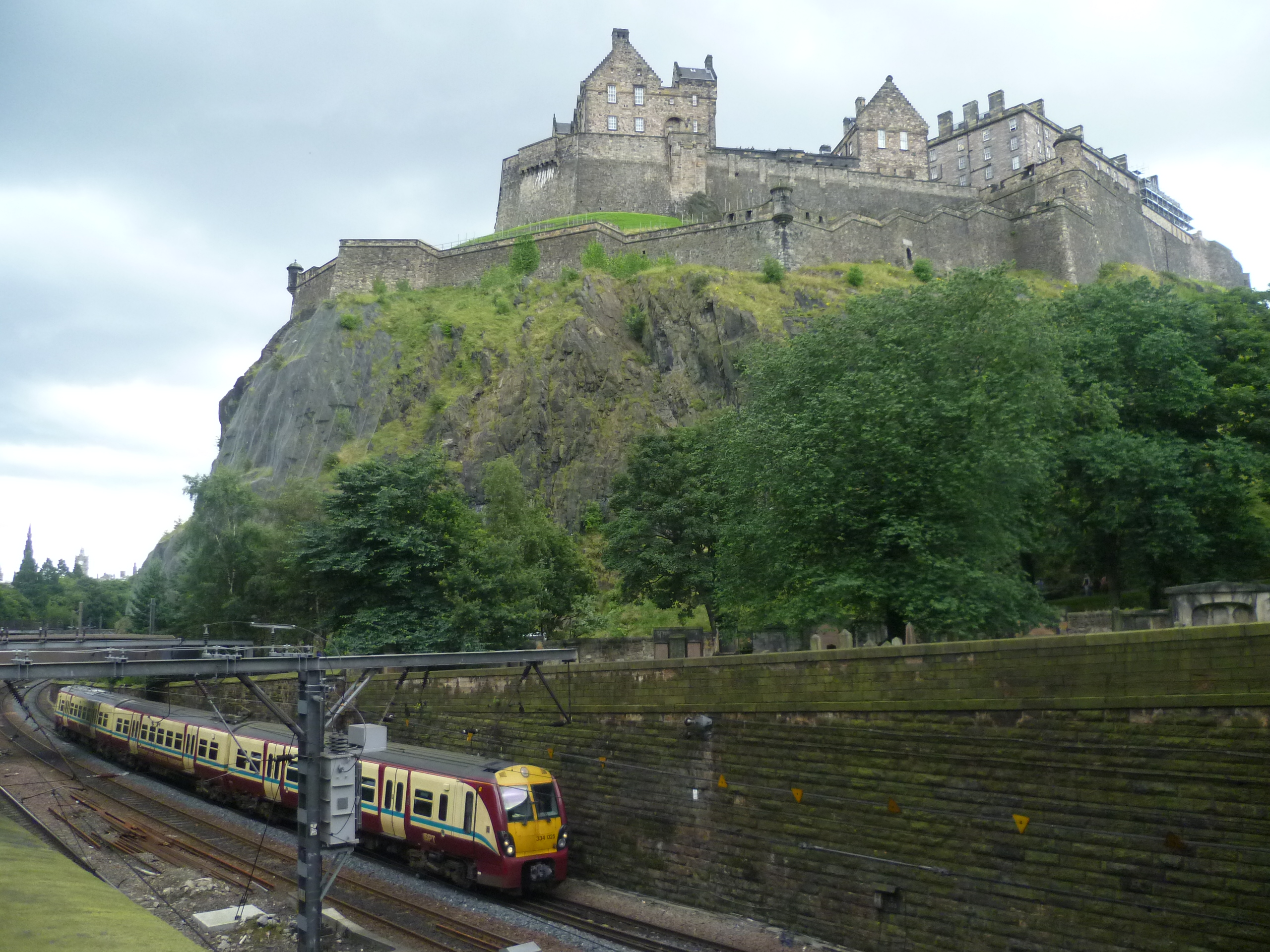 A Glasgow-bound train leaves Edinburgh.